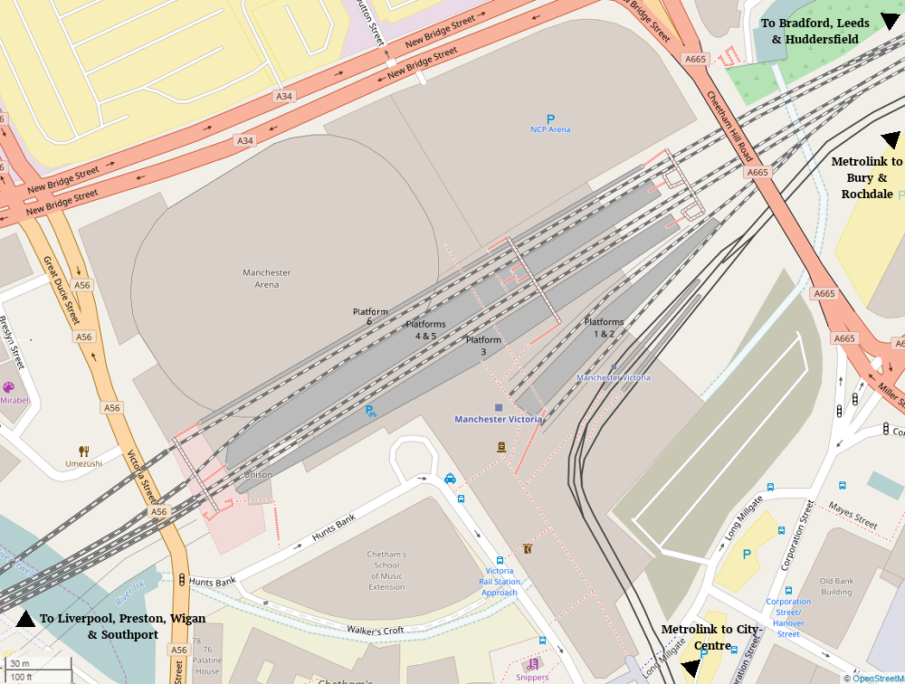 Plan of Manchester Piccadilly station. This map may be incomplete, and may contain errors. Don't rely solely on it for navigation.